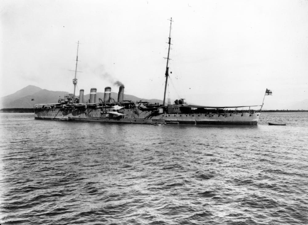 H.M.A.S. Sydney (1912) with submarines, AE1 and AE2 Cairns, 1914. (Description supplied with photograph.).